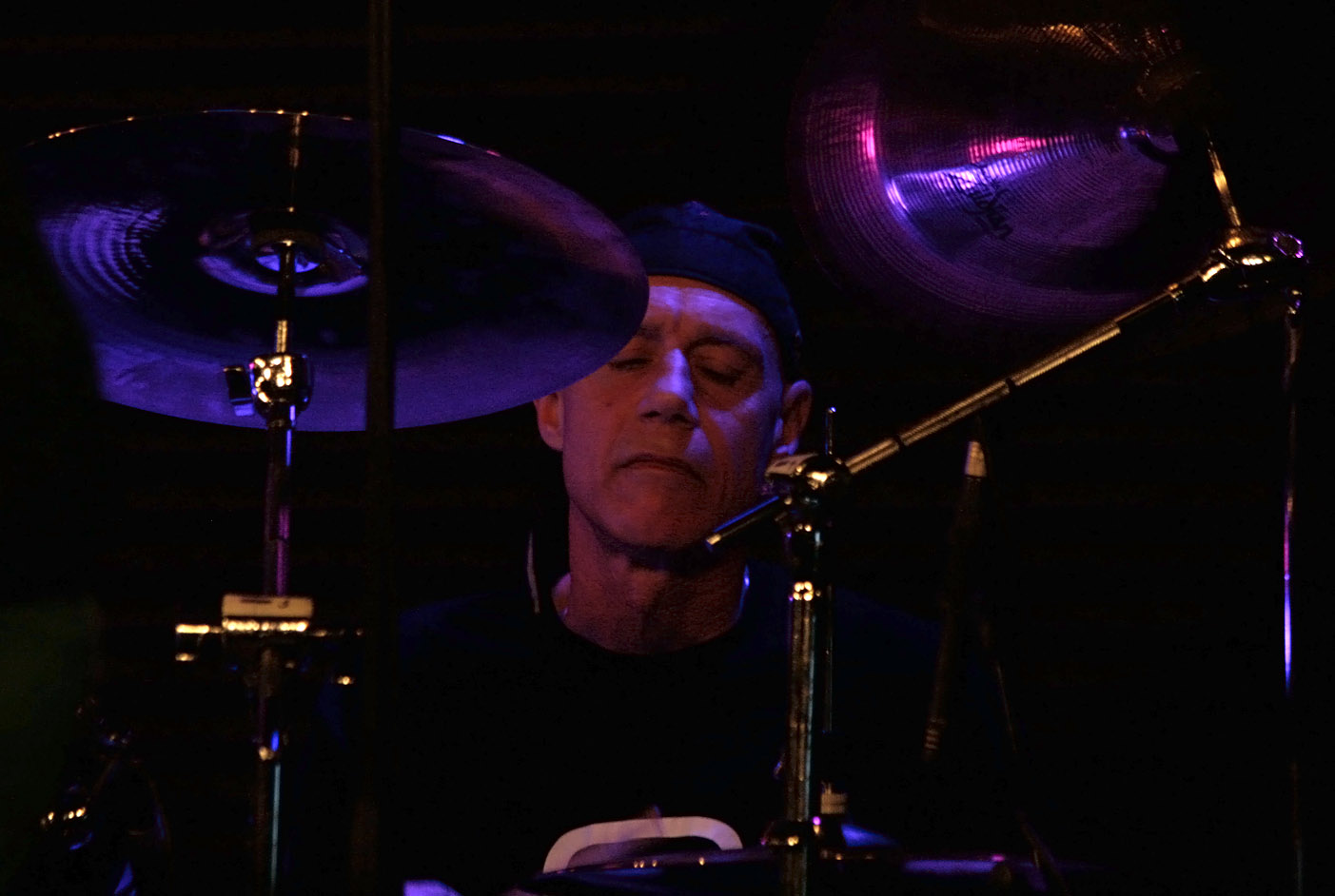 Keith Leblanc; Little Axe concert at the Reigen in Vienna